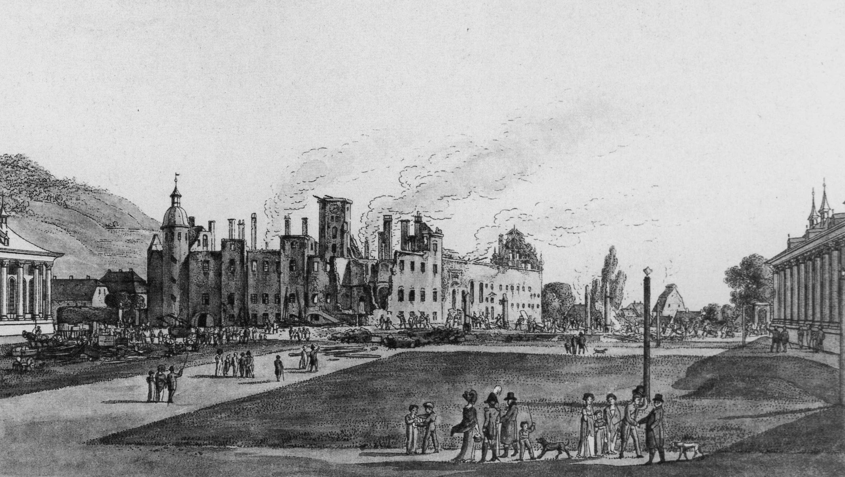 Ruins of the Countess palace at Pillnitz Castle in 1818